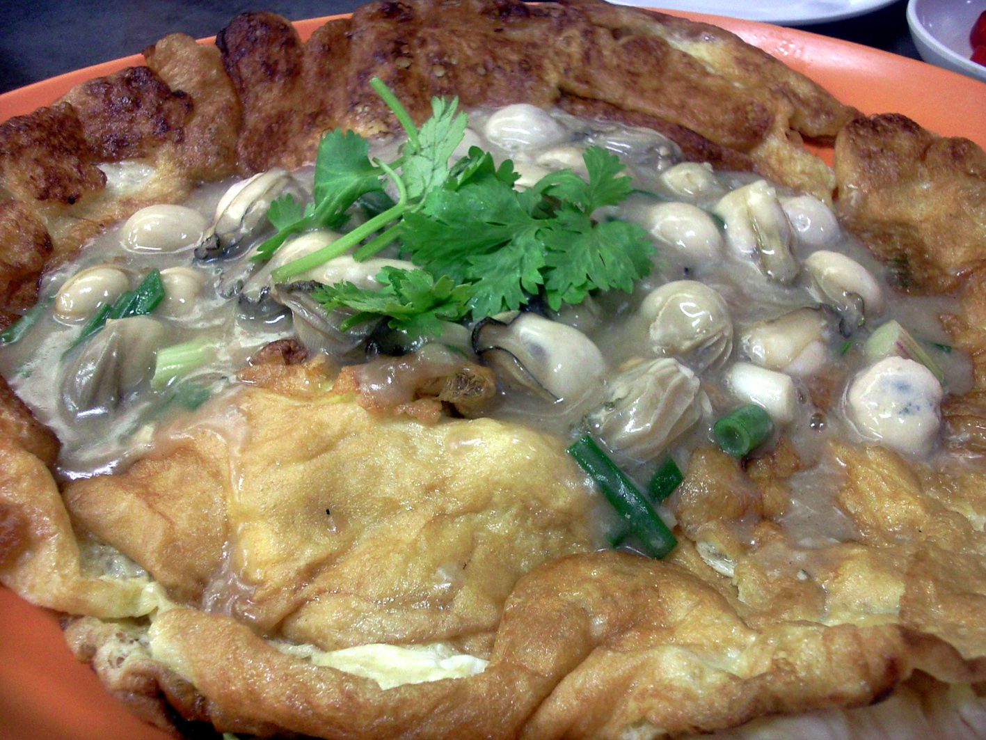 Teochew Chiuchow cuisine; oyster omelette